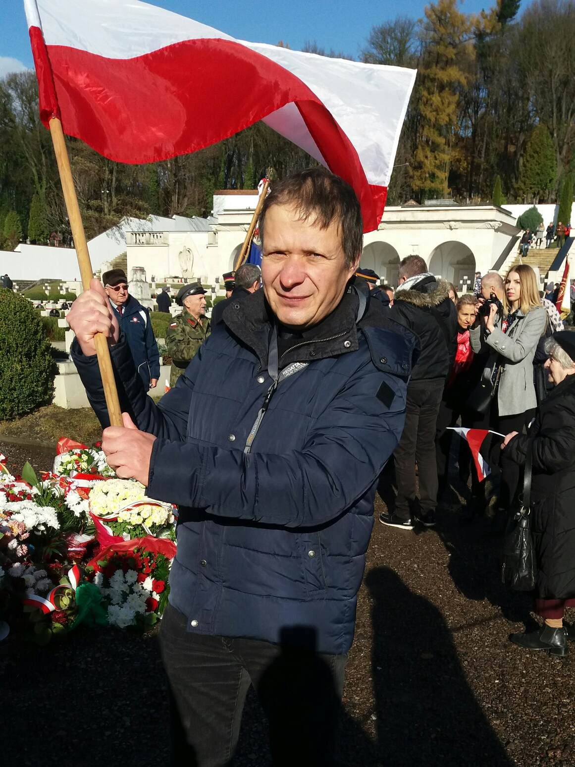 Marcin Hałaś with flag of Poland at Cemetery of the Defenders of Lwów, National Independence Day